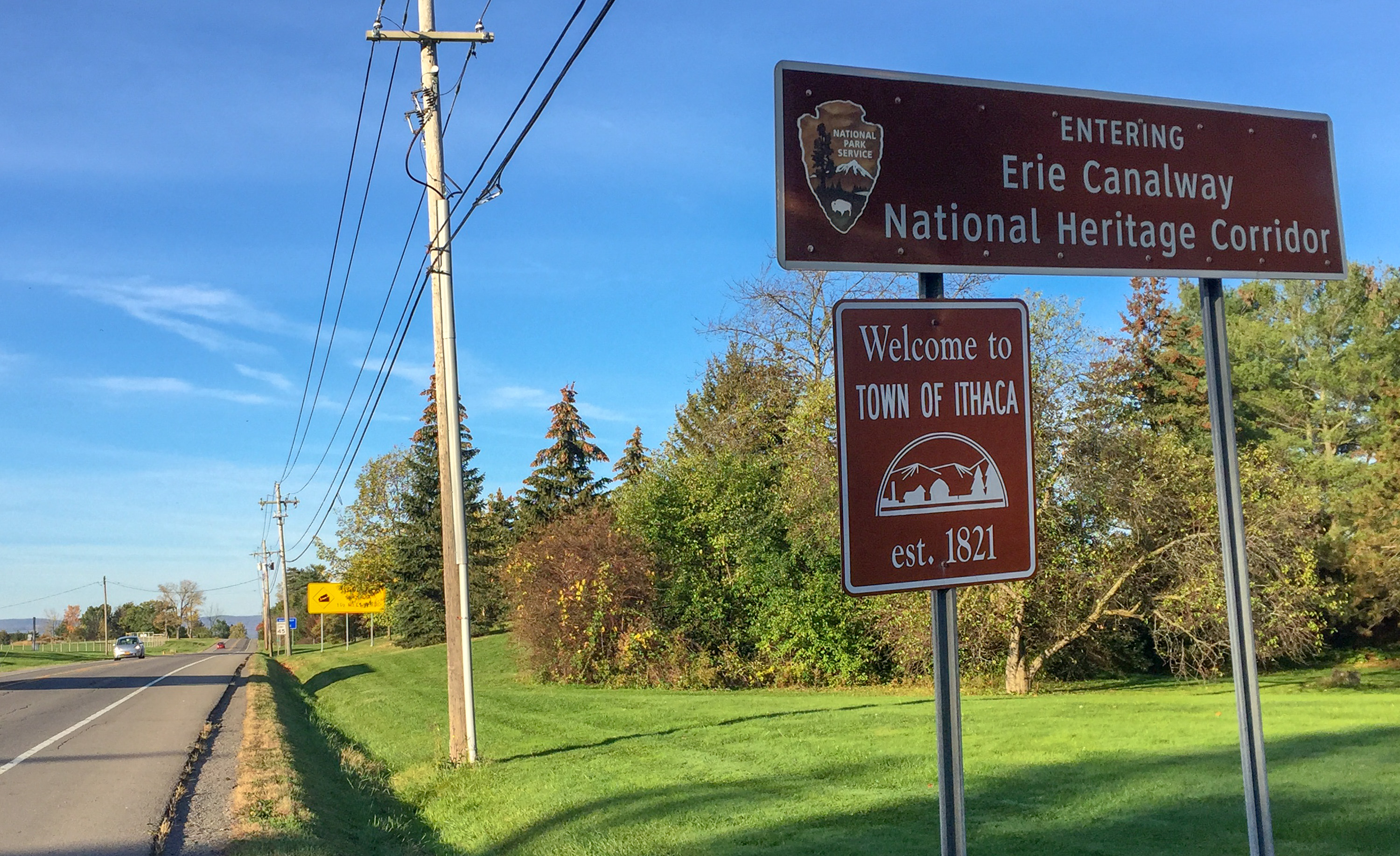 A sign welcomes visitors to the town of Ithaca, New York, along Dryden Road. Also includes a sign "Entering Erie Canalway National Heritage Corridor"